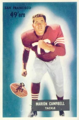 American football player Marion Campbell on a 1955 Bowman card.